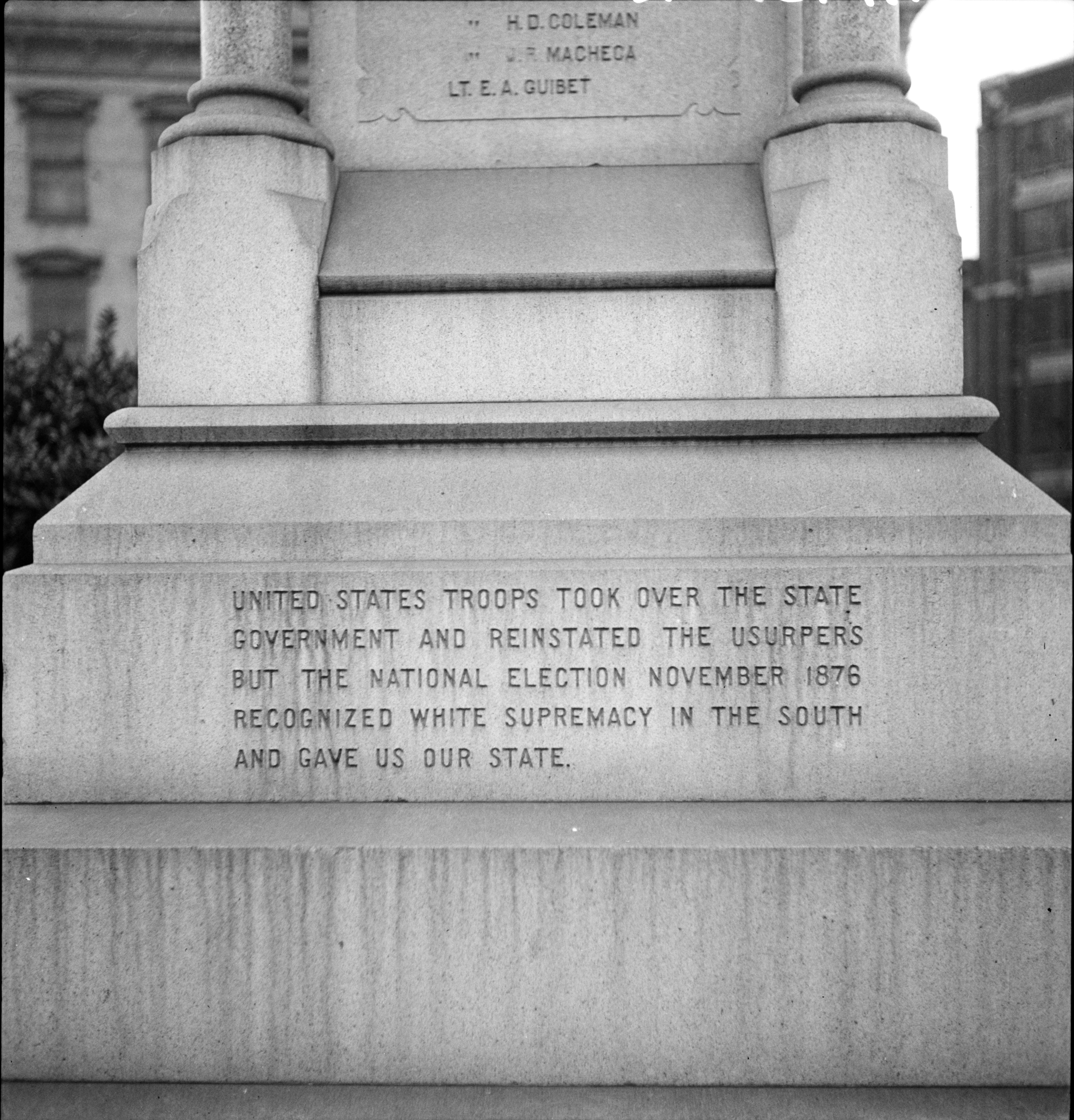 "One side of the monument erected to race prejudice. New Orleans, Louisiana". Inscription on "Battle of Liberty Place" monument, 1936, as photographed by Dorothea Lange